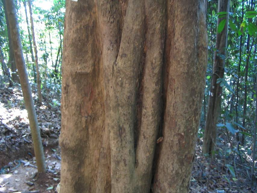 Tronc de terminalia Subspathula - Buckit Nana National Park - Kuala Lumpur - Malaysia